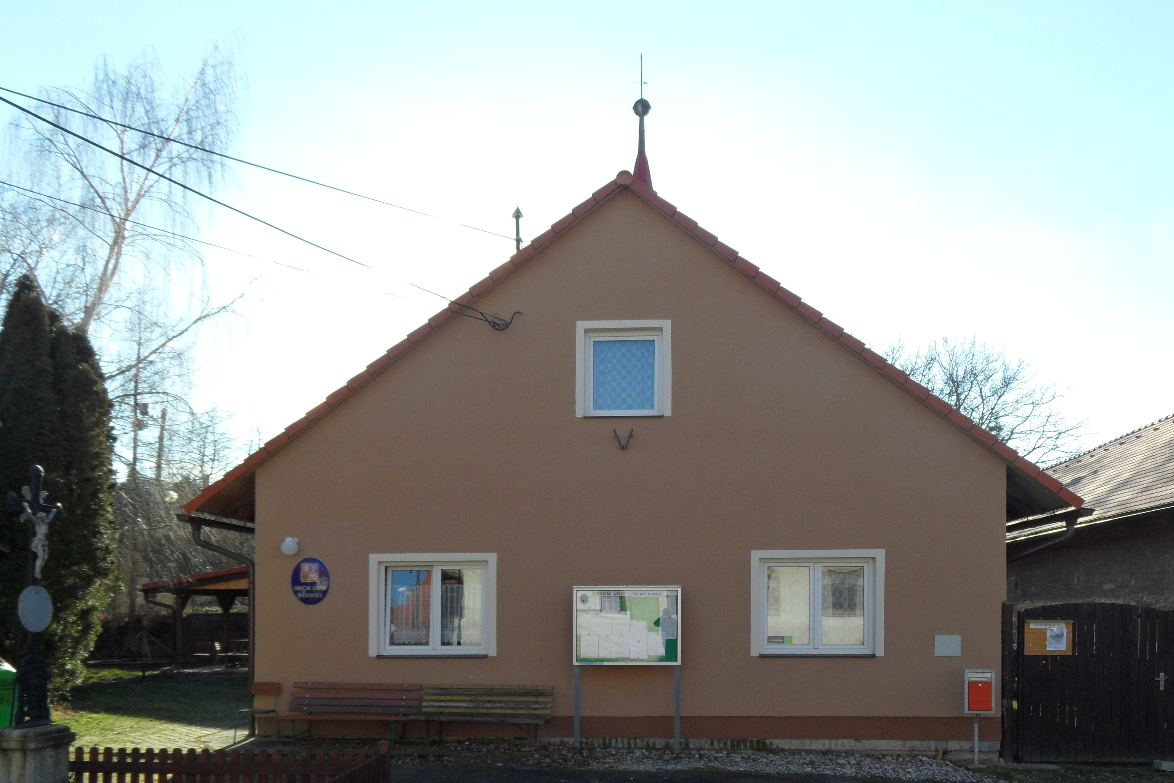 Zvěstovice C. Building of Municipality Office, Havlíčkův Brod District, the Czech Republic.